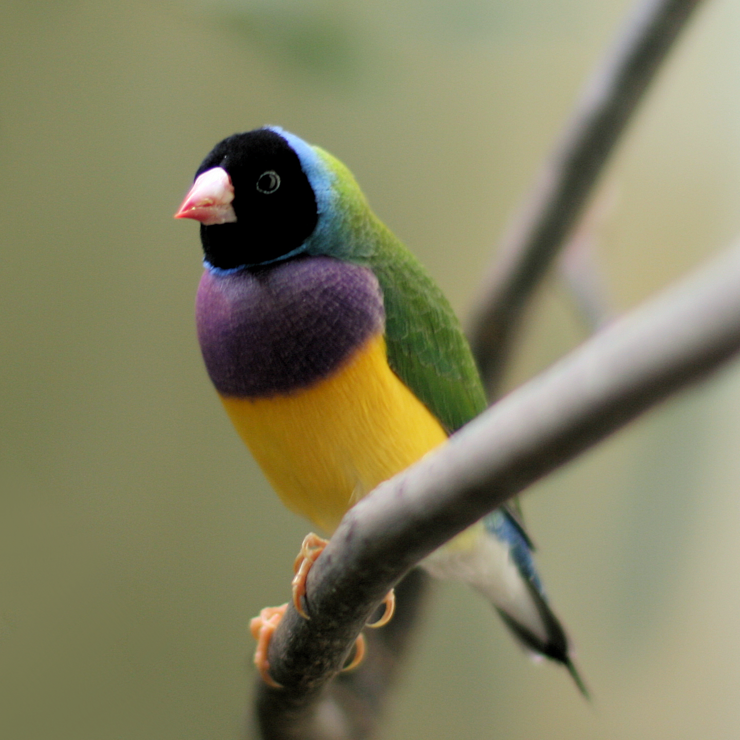 A black headed Gouldian Finch at Frankfurt Zoo, Germany.